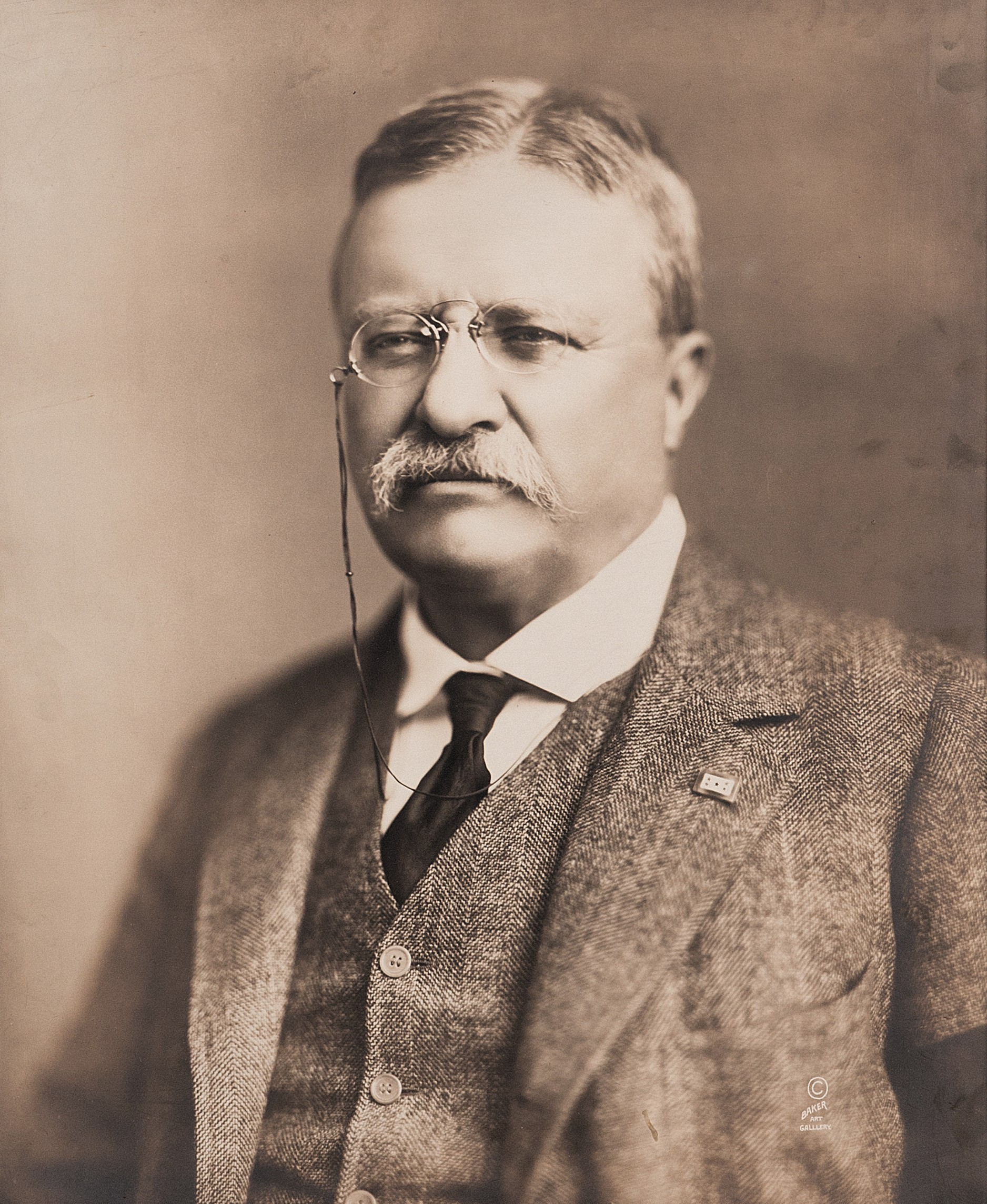 Silver gelatin photograph of Theodore Roosevelt